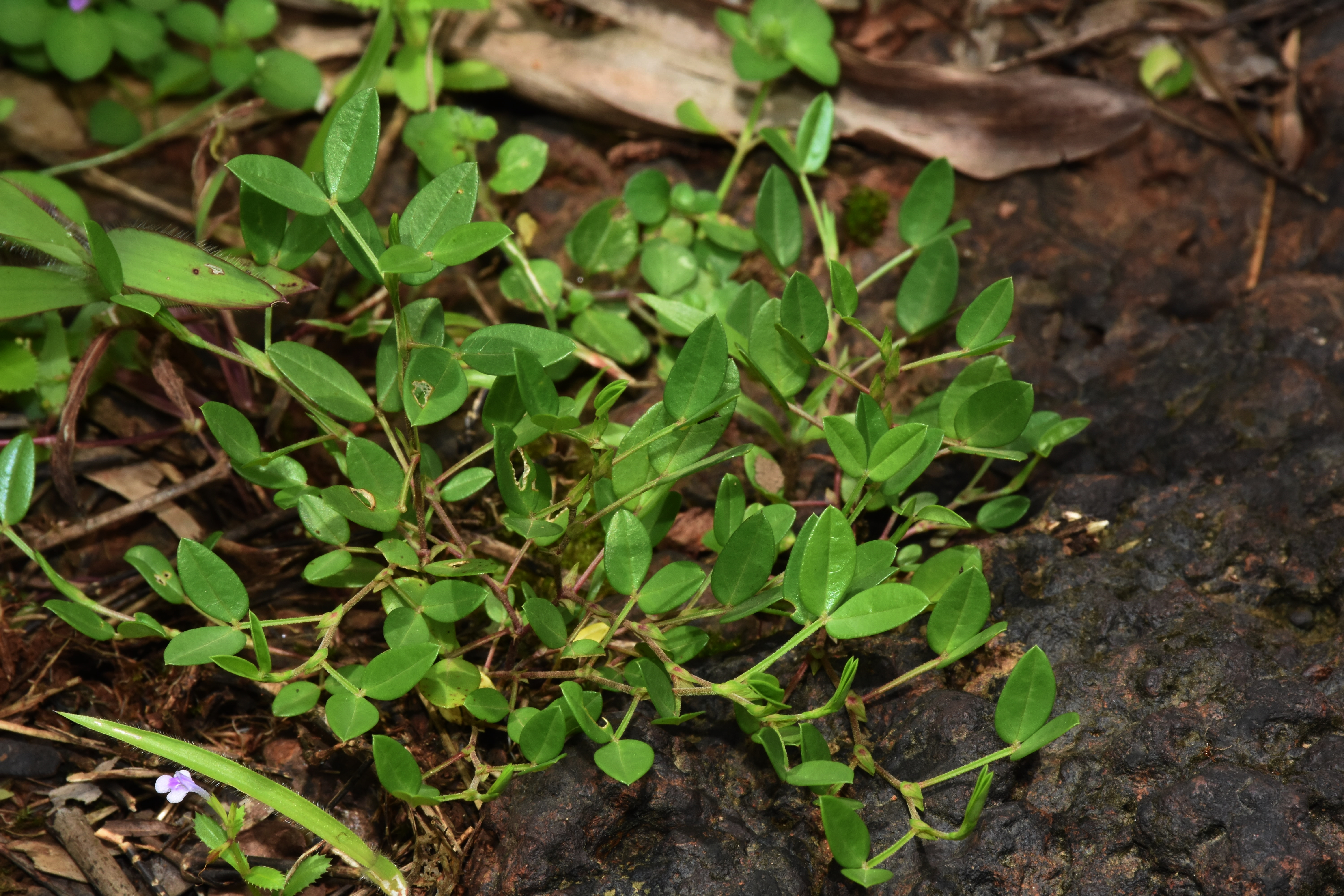 Zornia diphylla is a member of Fabaceae family. Its commonly seen in grassy laterite slopes and plains.